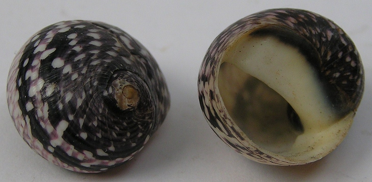 Neritodryas cornea C. Linnaeus, 1758, a freshwater nerite from the family Neritidae; Philippines